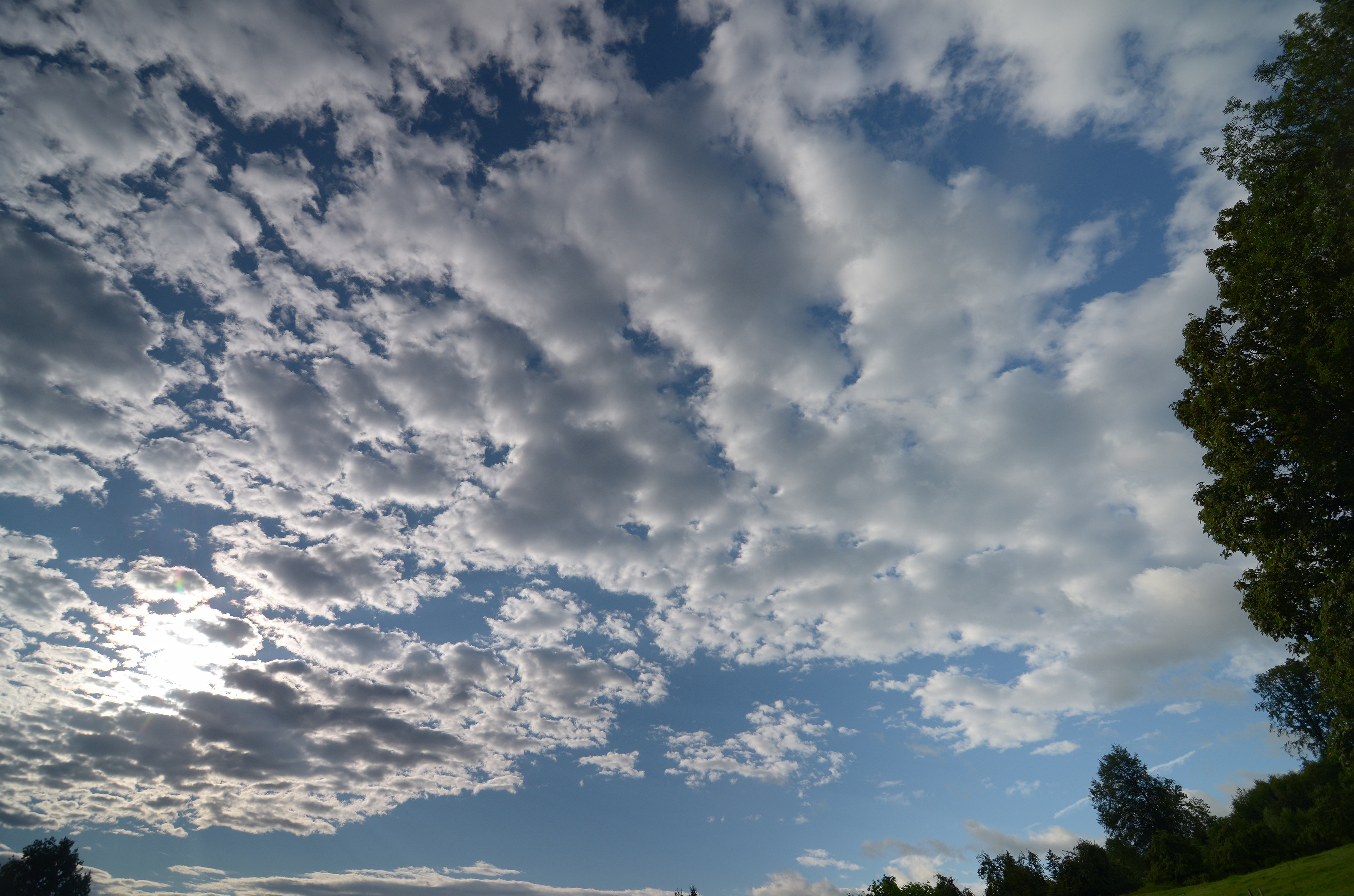 Stratocumulus stratiformis perlucidus translucidus with its typical flat shape and connected cloud parts which distinguishes it from Cumulus. This image has been taken by holding a GND filter rotated by 90 degrees to avoid heavy over-exposure on the sun area.